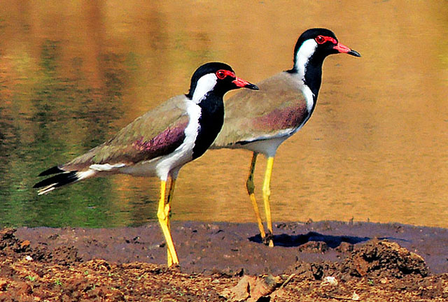 Pair Of Red-Wattled Lapwing (Vanellus indicus)